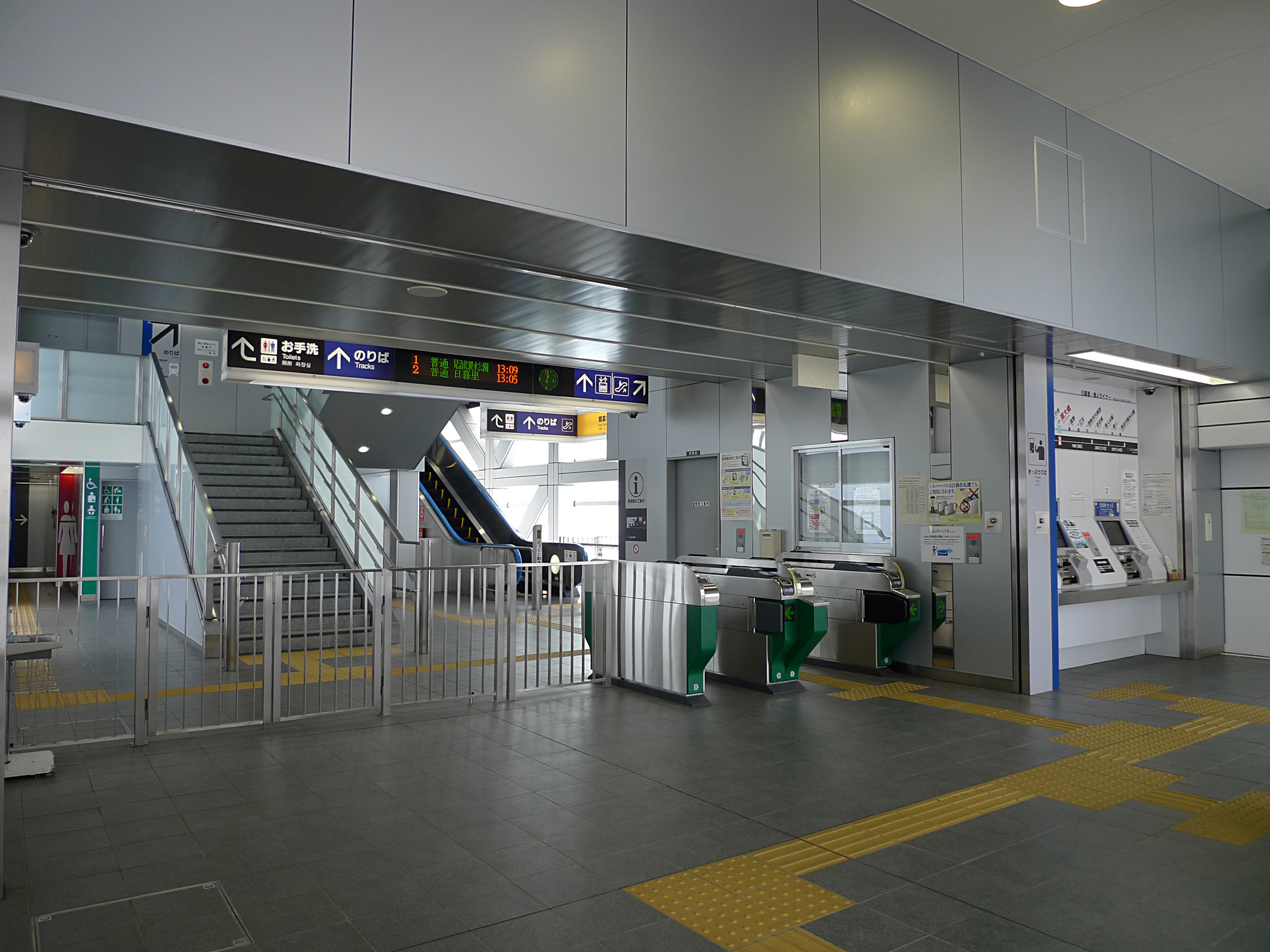 Ogi-ohashi station gate,Nippori-Toneri Liner.